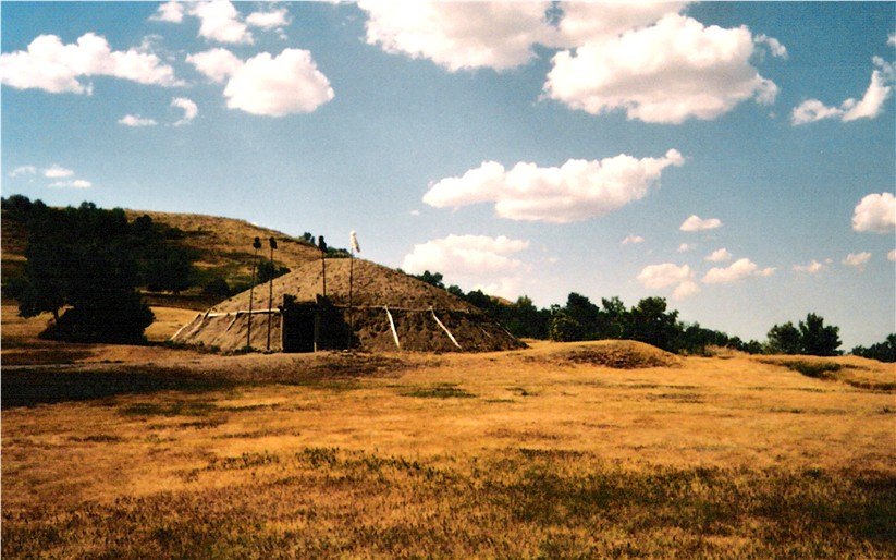 Reproduction Native American lodge at Ft. Abraham Lincoln south of Bismarck, North Dakota